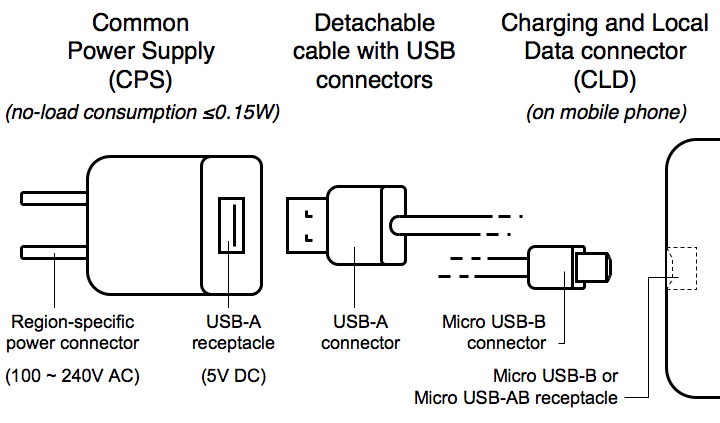 OMTP Common Charging Solution - component diagram